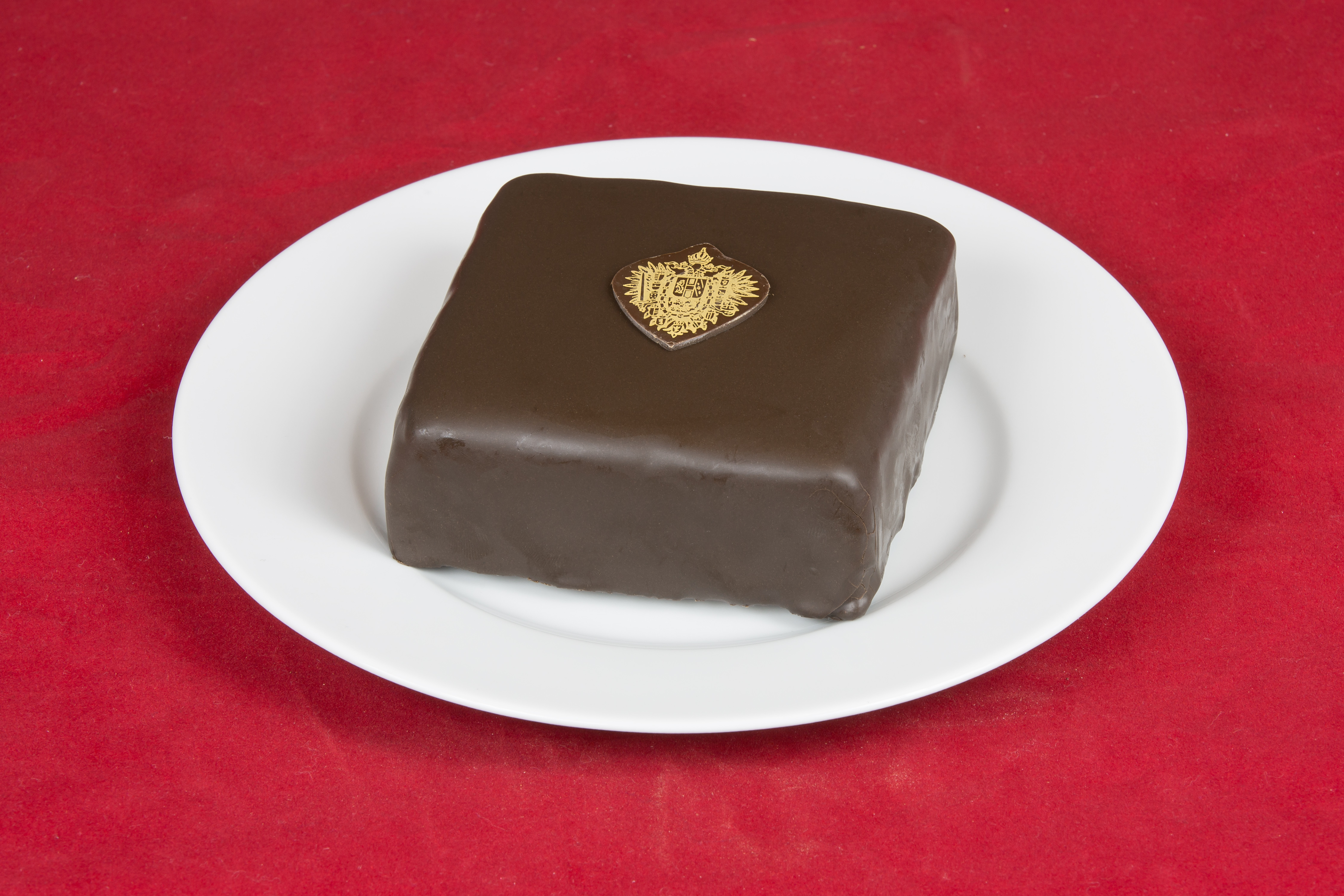 Hotel Imperial-Torte.